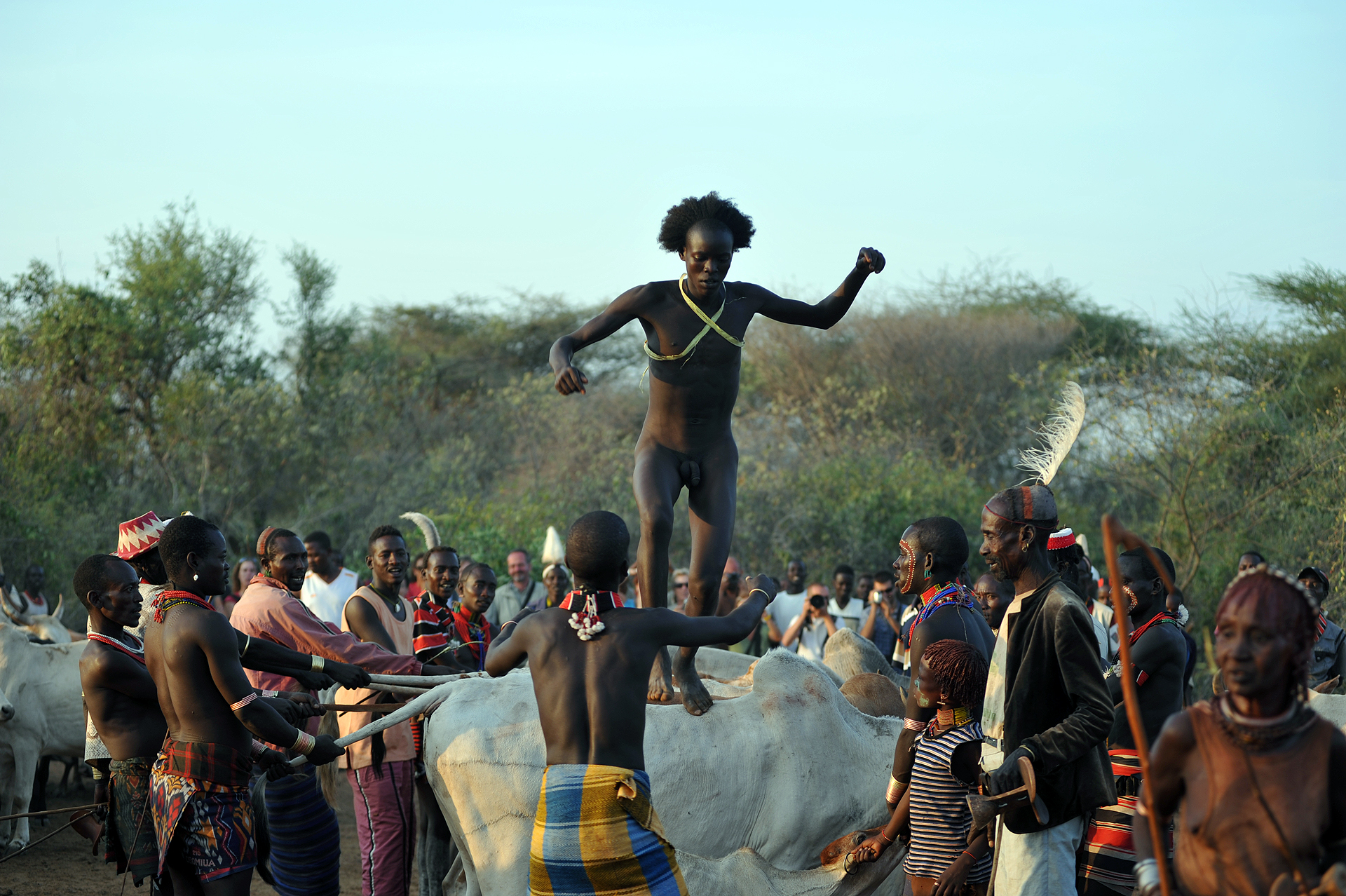 People and places in the Omo Valley, Ethiopia.